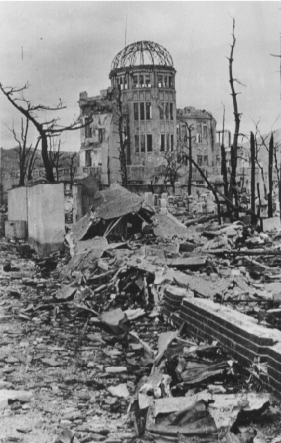 Photo of what became later Hiroshima Peace Memorial among the ruins of buildings in Hiroshima, in early October, 1945, photo by Shigeo Hayashi.